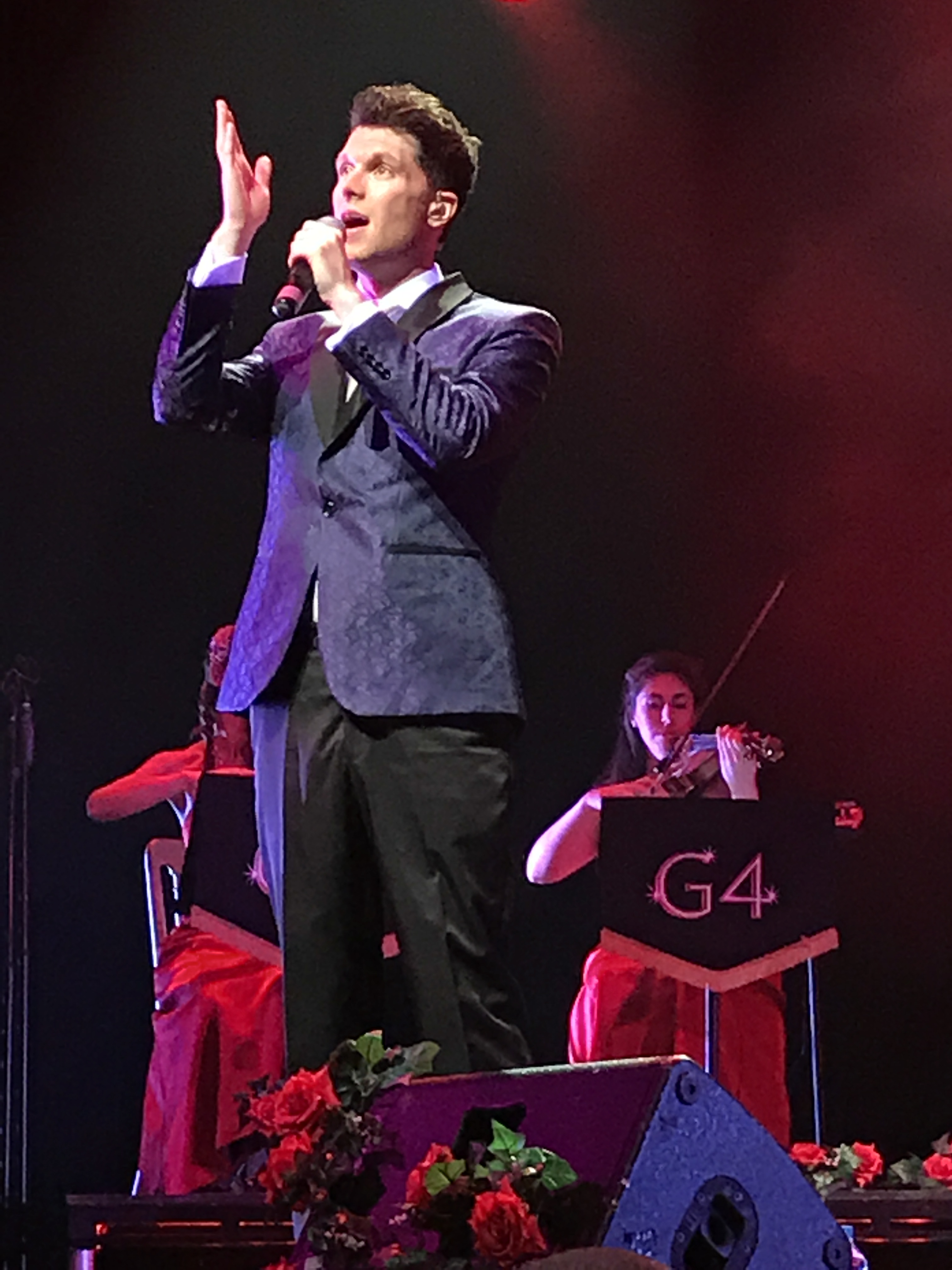 Mike Christie from G4 singing at Weymouth Pavilion in 2017